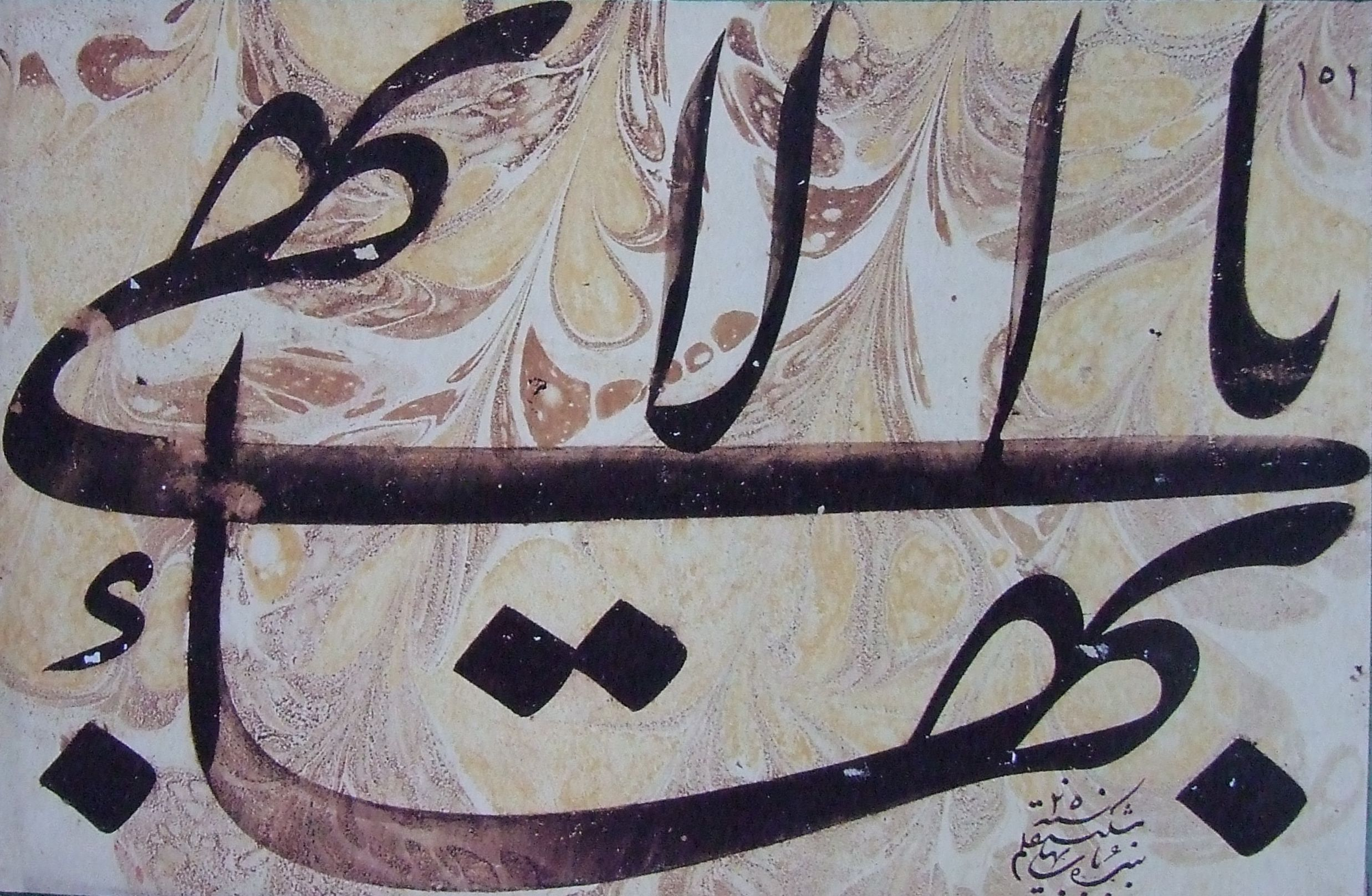 Calligraphy by Mishkín-Qalam (1826-1912)